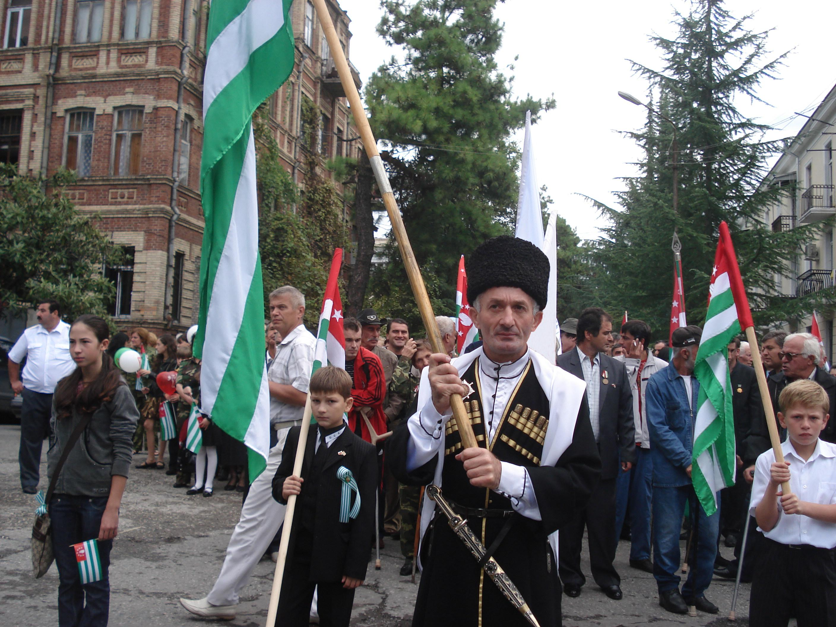 Apsua Holding Apsny Flag